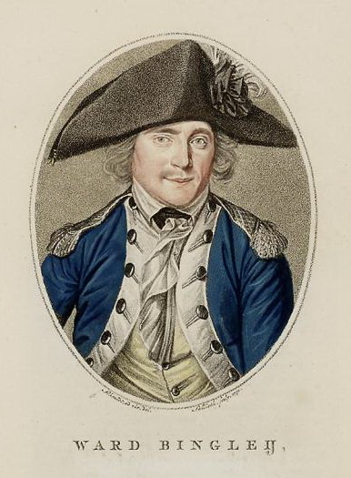 Engraving by Matthias de Sallieth of Dutch actor Ward Bingley (1757-1818) as captain in the play De snijder en zijn zoon.